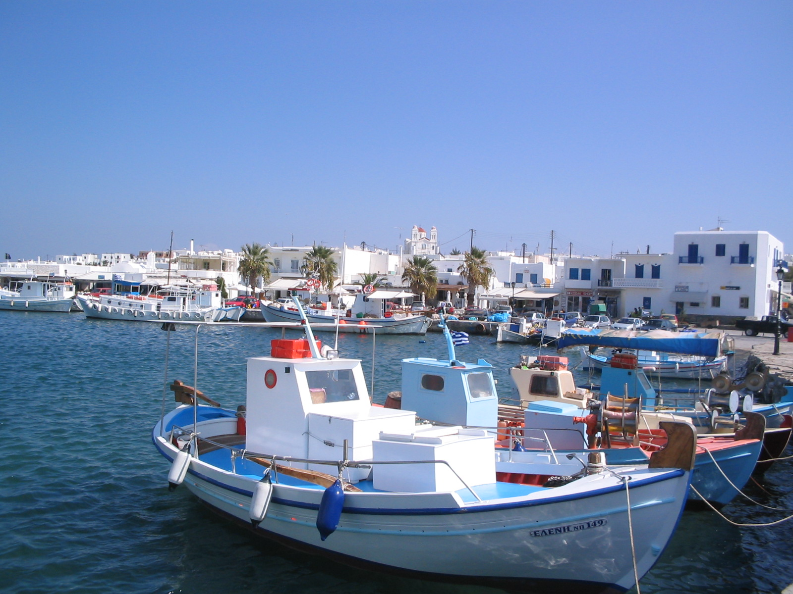 Village of Naoussa, Paros Isalnd, Greece